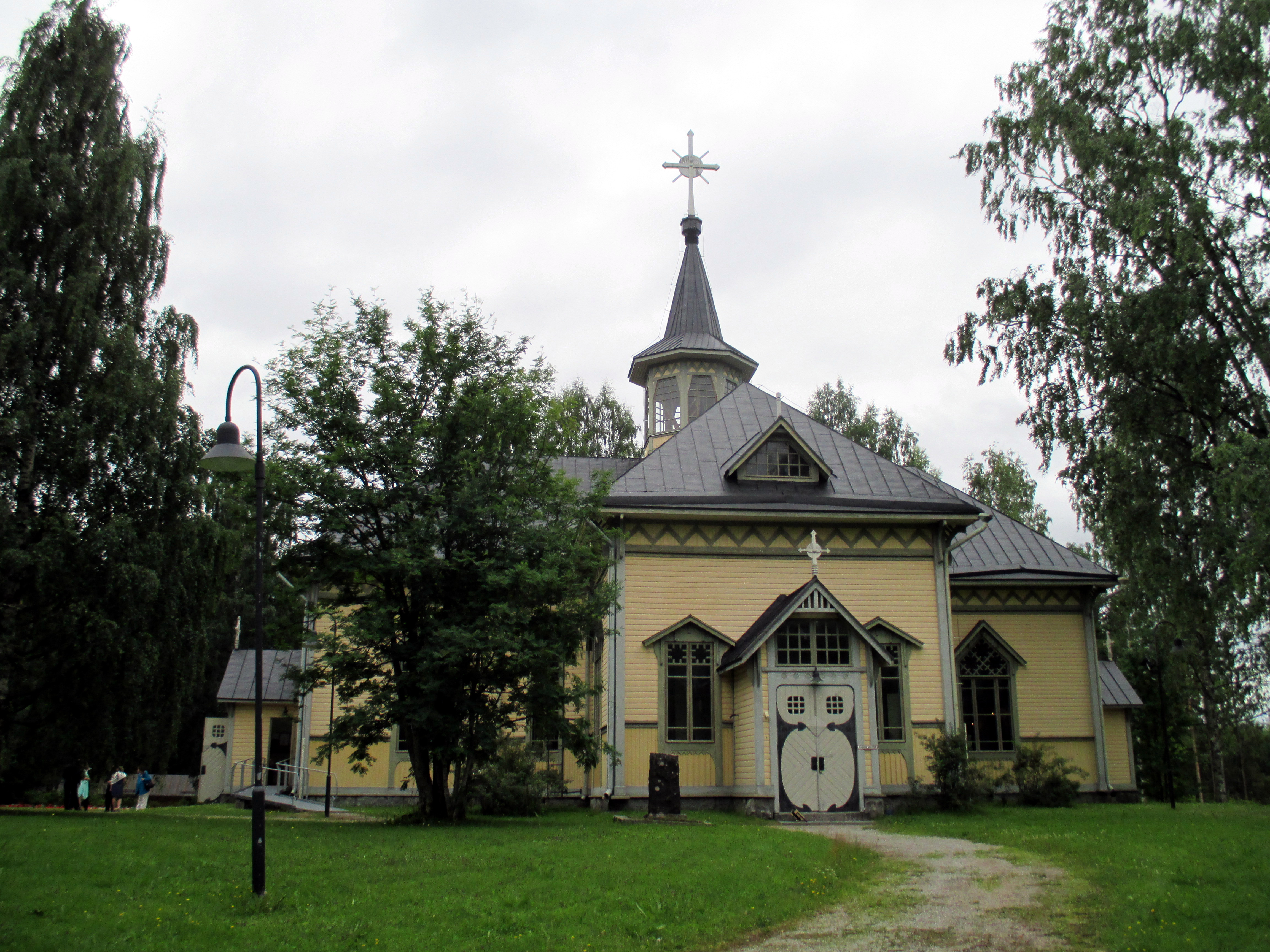 Uurainen Church, Finland.